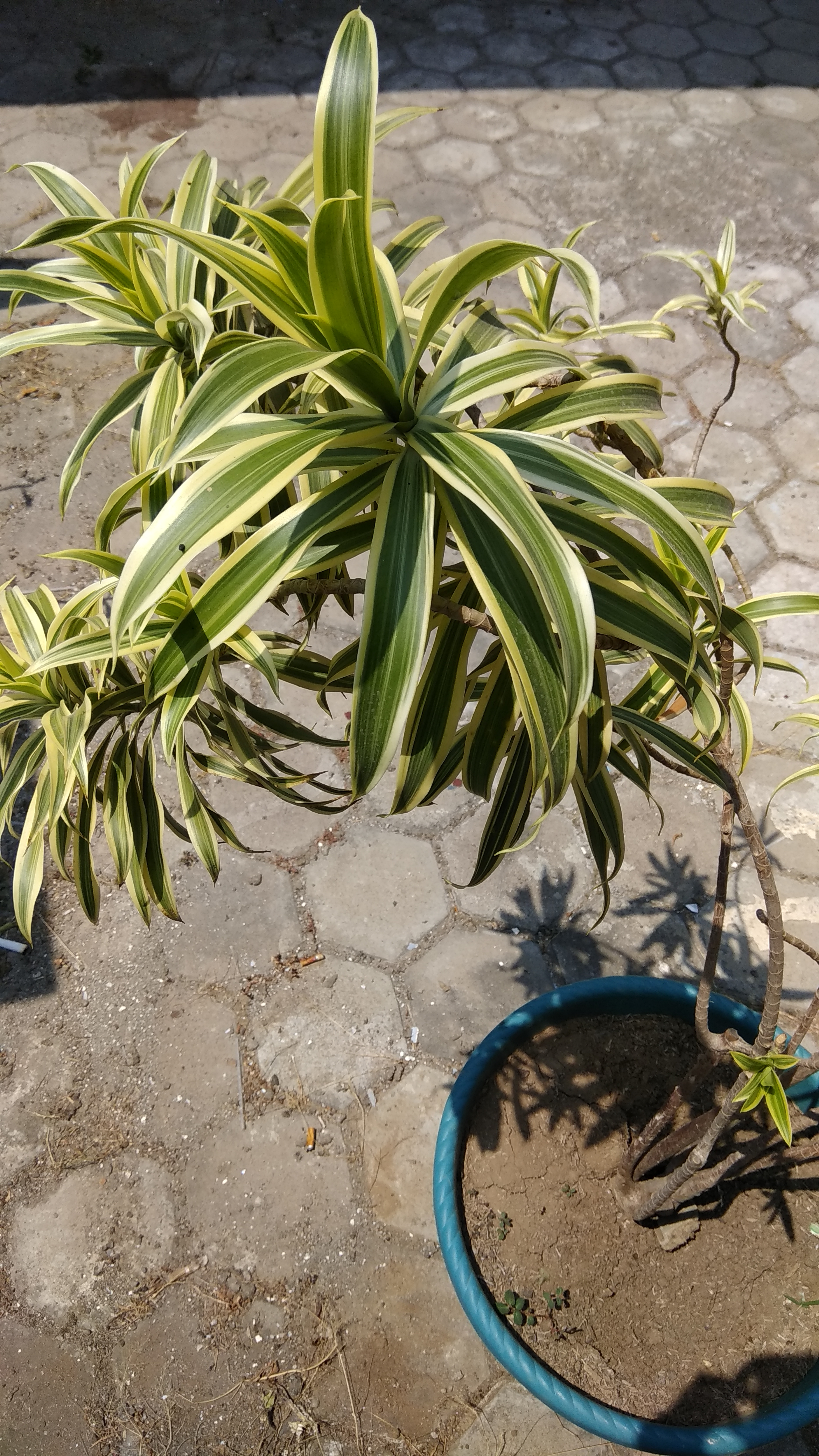 Dracaena: Song of India